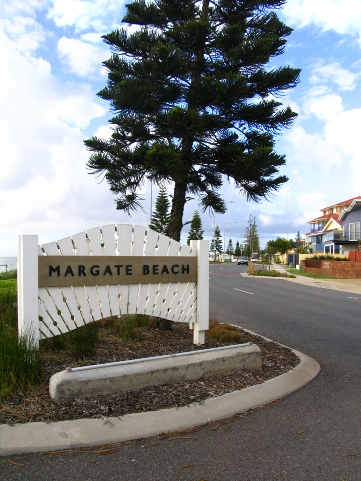 Margate Beach at, Queensland, Australia.